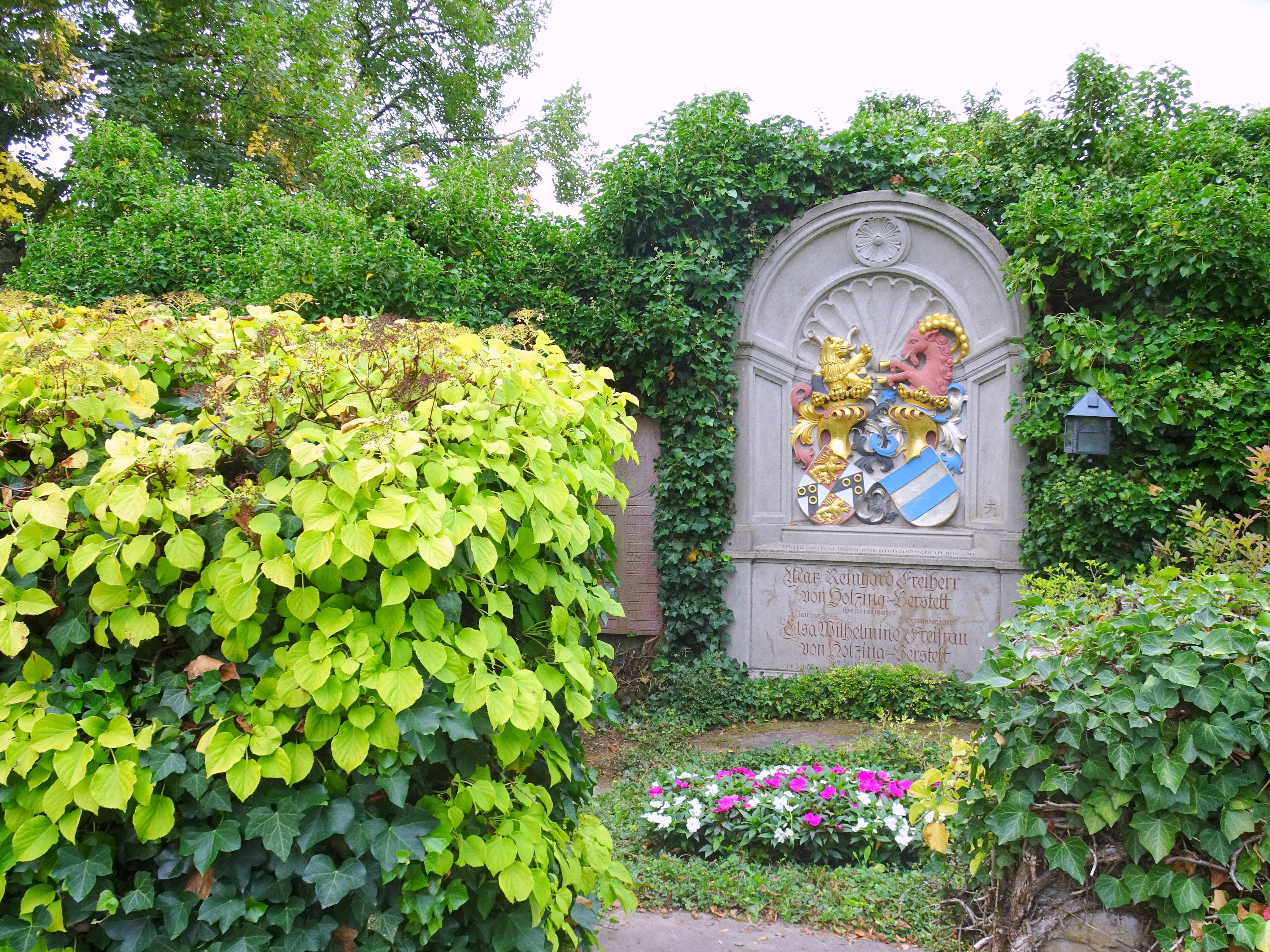 Gravesite of the von Holzing-Bersttet family, Bollschweil, Germany